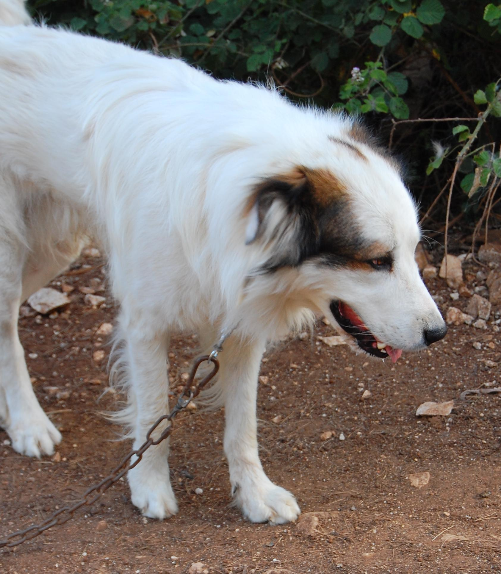 Toro the Tornjak. Photo taken in a dog shelter in Zadar, Croatia.